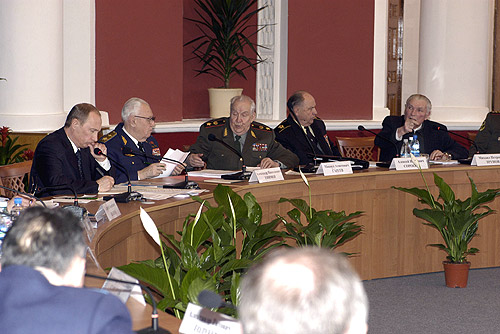 Oryol. At the Meeting of the Russian Organising Committee “Victory”.